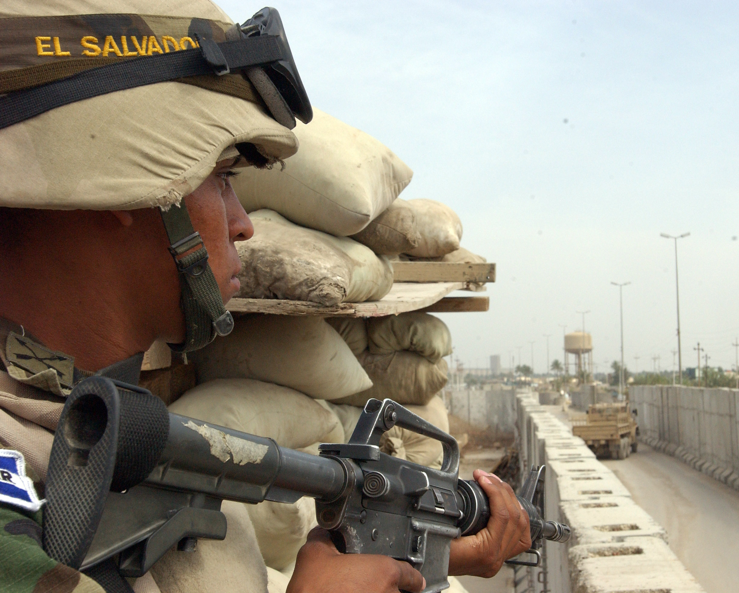 An unidentified El Salvadoran special forces Soldier keeps a close eye on the borders of Camp Charlie in Al Hillah, Iraq, April 14, 2005. The Cuscatlan Battalion IV Soldier is helping support Operation Iraqi Freedom, which is being conducted mainly by Coalition Forces in Hillah. The mission consists of mainly training Iraqi people in various career fields and the Coalition also conducts counter insurgency missions. (Photo by Spc. Ferdinand Thomas, 214th Mobile Public Affairs Detachment) (Released)